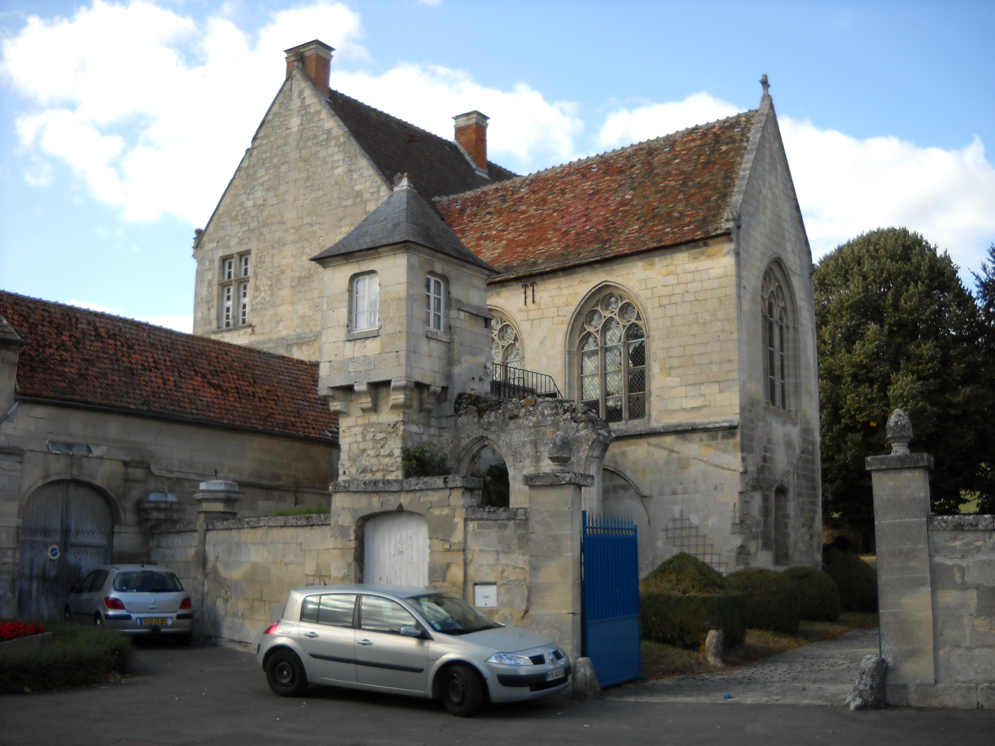 The commandry of Neuilly-sous-Clermont, Oise, France.